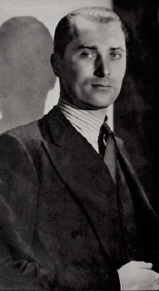 Brian Aherne